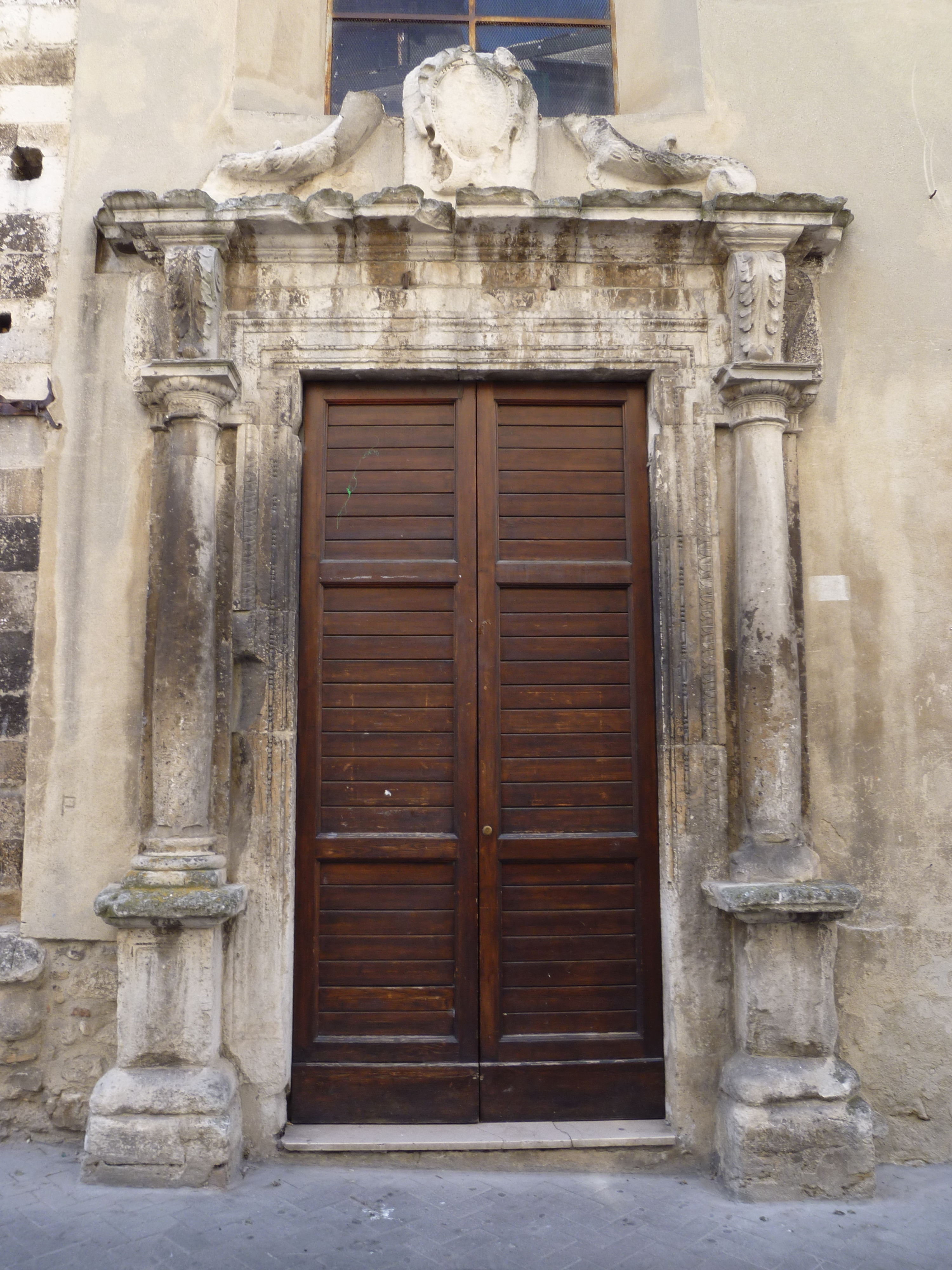 The portal of the church of San Silvestro in Guardiagrele, in the province of Chieti, Abruzzo